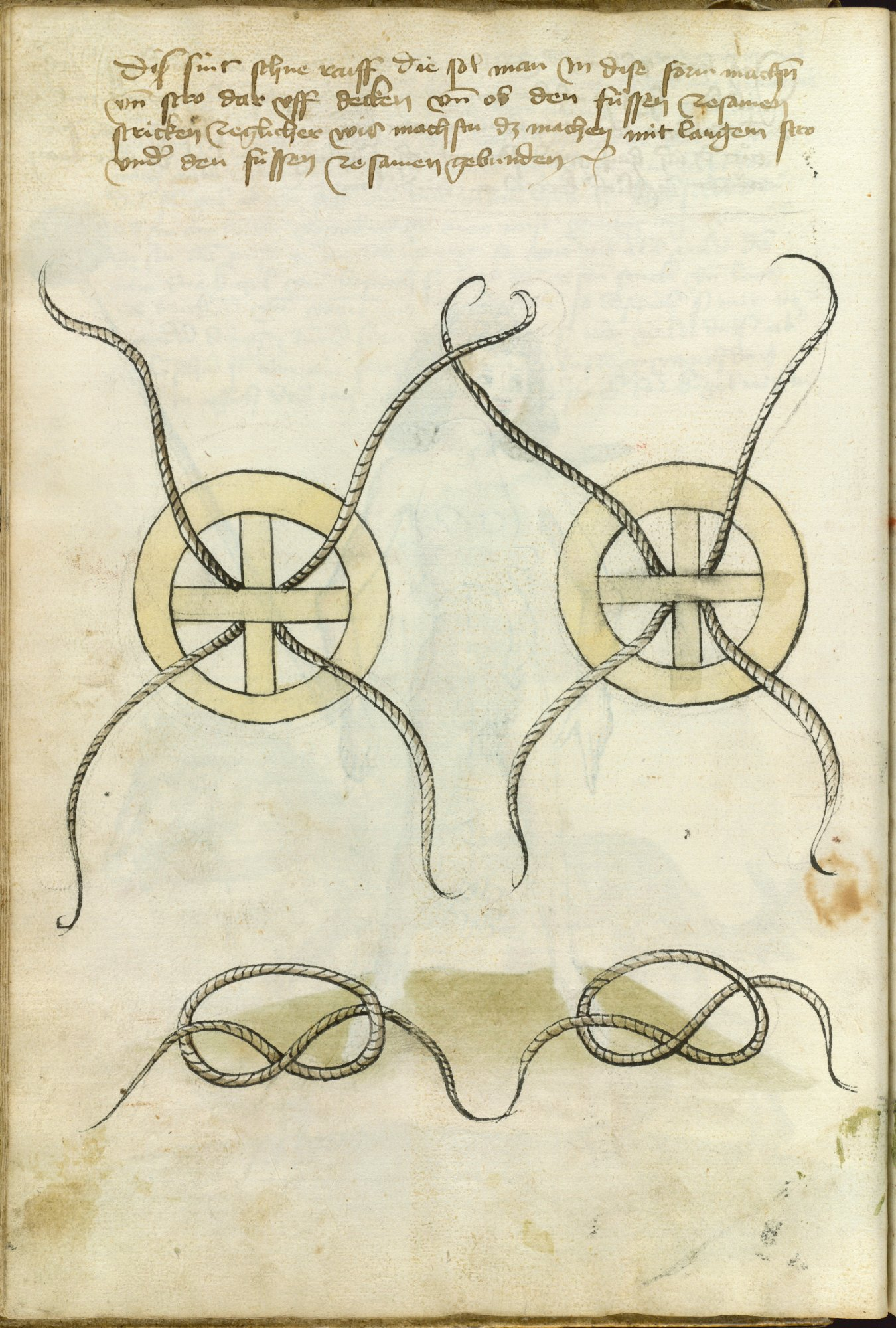 The Ms.Thott.290.2º is a fencing manual written in 1459 by Hans Talhoffer for his own personal reference and illustrated by Michel Rotwyler.